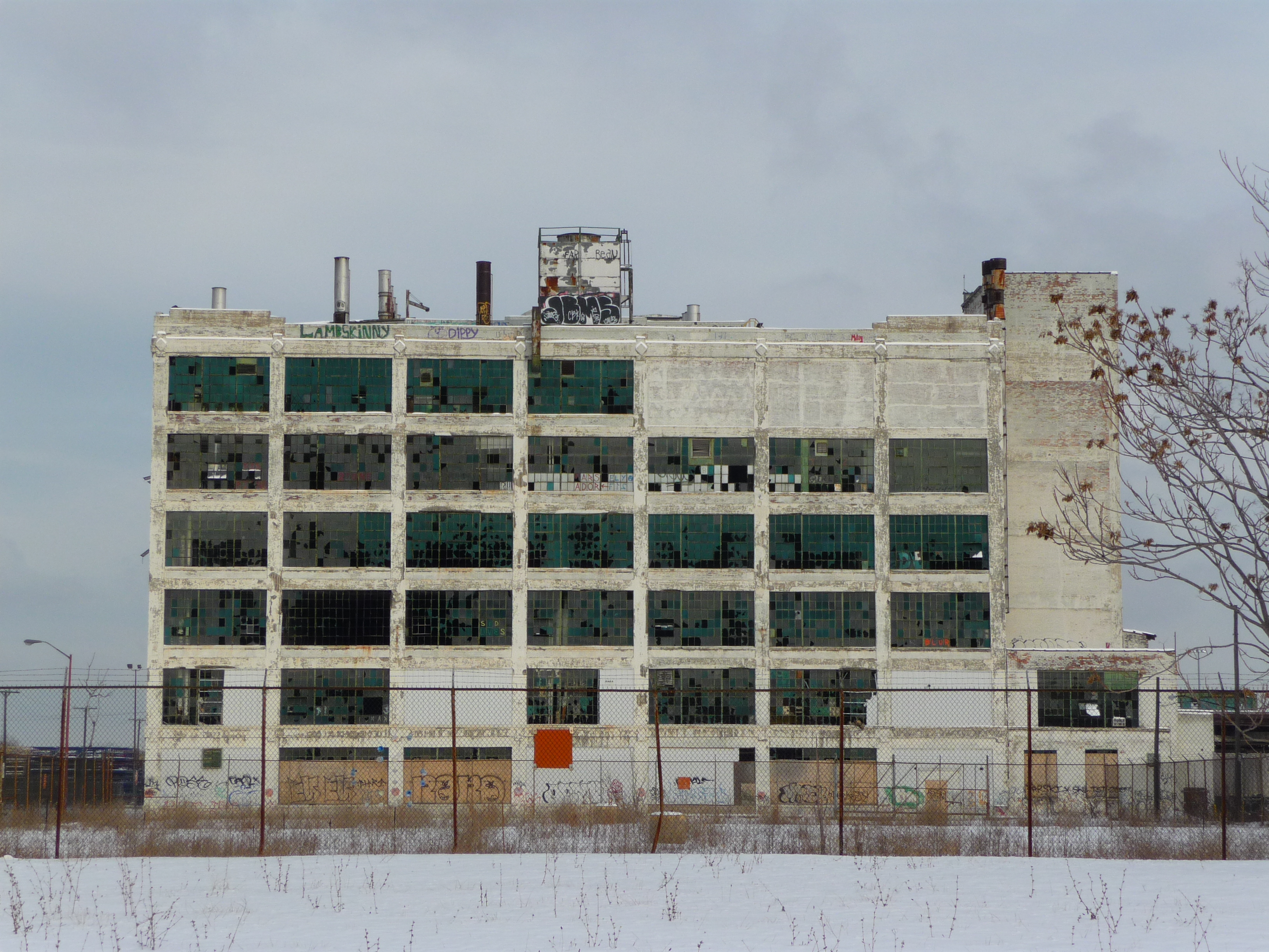 View of the Fisher Body plant in New Center, Detroit.